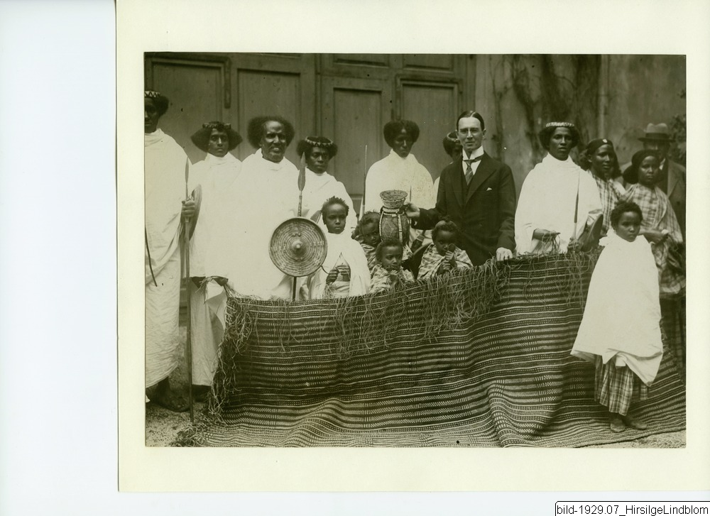 Gerhard Lindblom and Hirsi Ige et al in Stockholm 1929